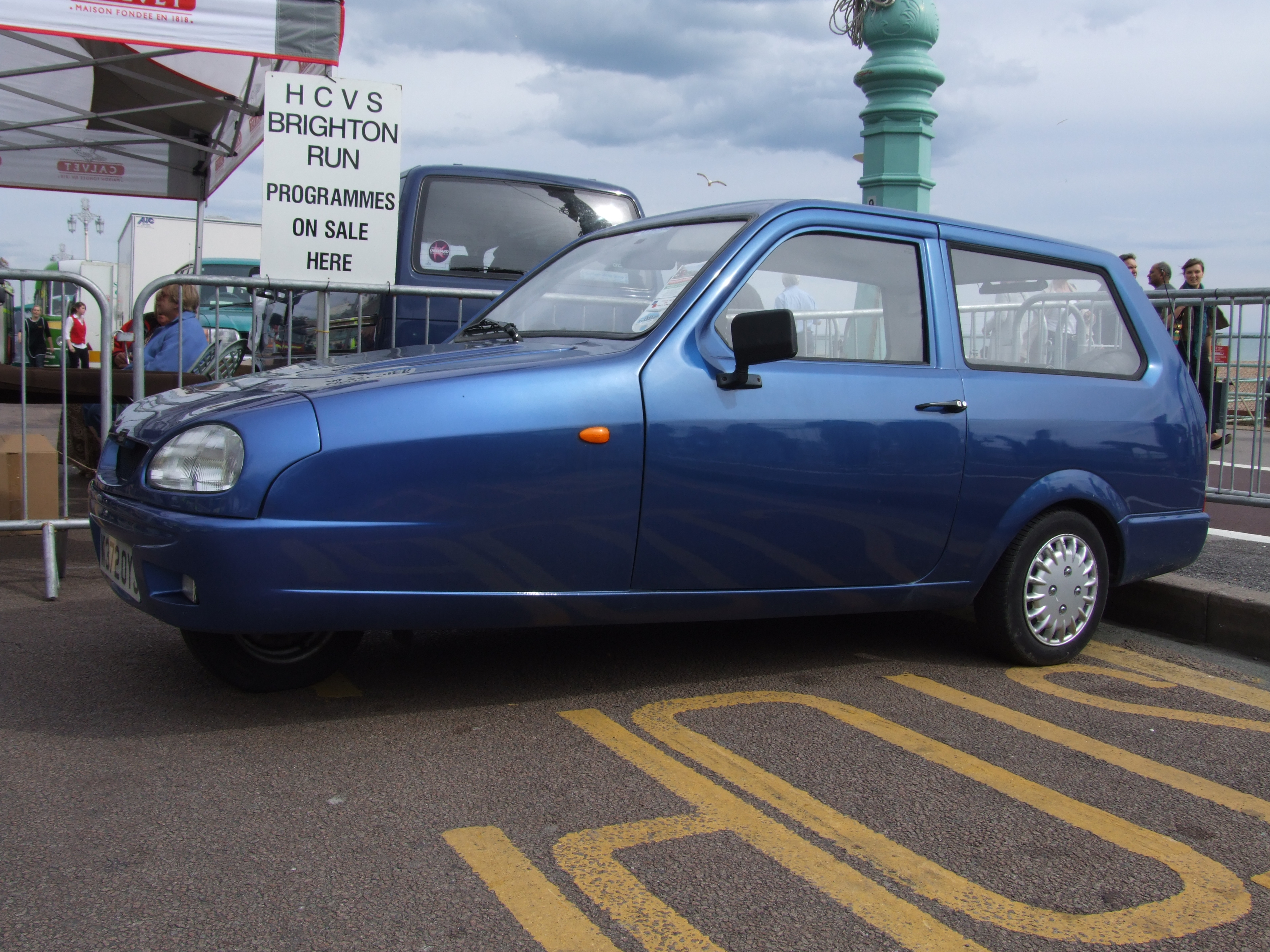 Strange to see this prestine 3 wheeler after seeing so many idecrepid ones.